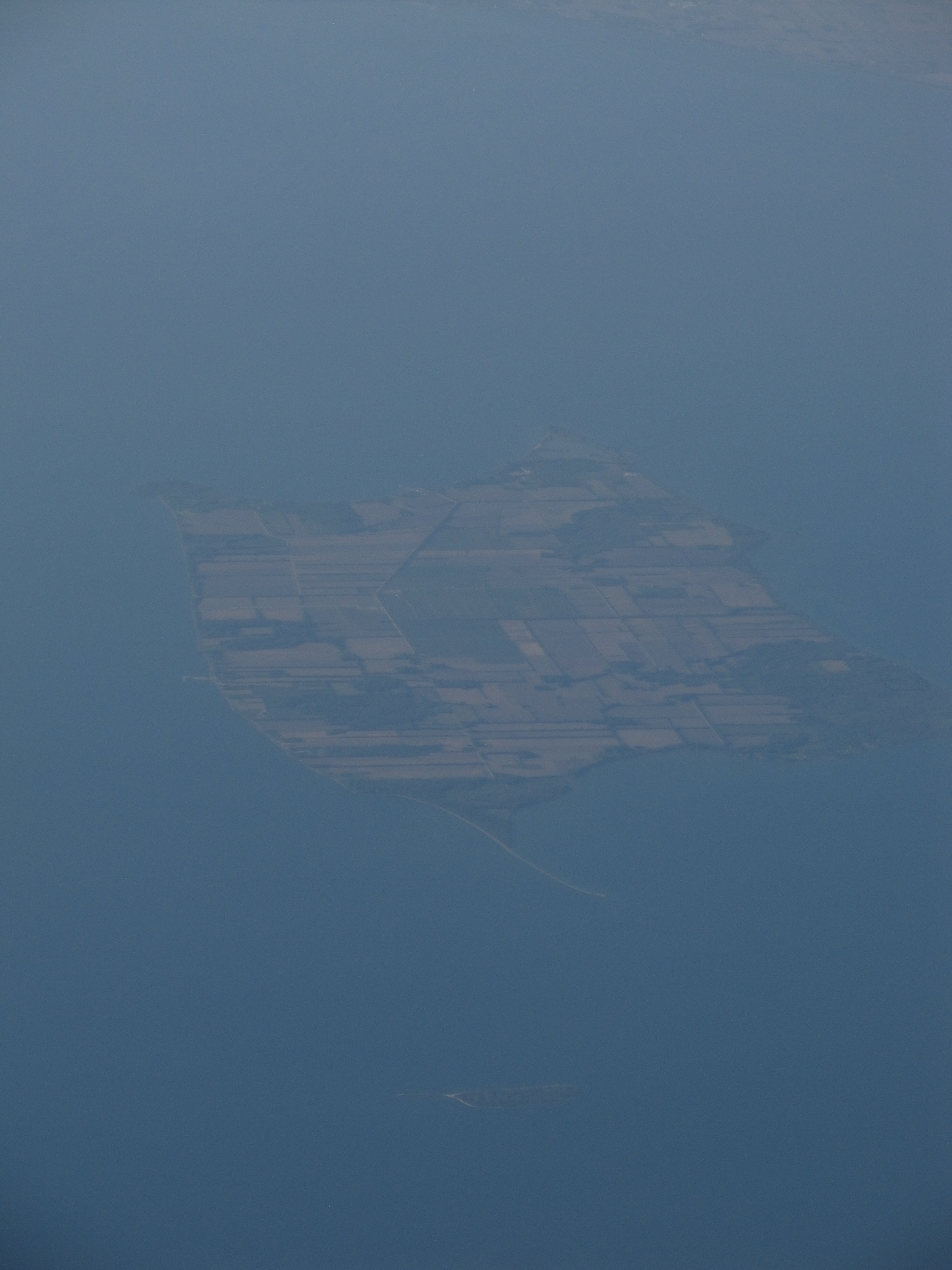 Pelee Island, Ontario, Canada is an island in the western half of Lake Erie. Pelee Island is connected to the Canadian and United States mainland by ferry service. At 42 km2, Pelee Island is the largest island in Lake Erie and the southernmost populated point in Canada. An Ontario Historical Plaque was erected by the province to commemorate the development of Pelee Island's role in Ontario's heritage. Nearby Middle Island is the southernmost point of land in Canada.